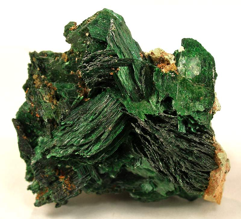 Szenicsite Locality: Jardinera No. 1 Mine, Inca de Oro, Chañaral Province, Atacama Region, Chile (Locality at ) Size: miniature, 4.0 x 3.9 x 2.2 cm Szenicsite Extremely sharp, brilliant green crystals of this very rare molybdate species in an unusually fine 3-dimensional cluster, make this a SUPERB miniature for the species. It comes from the collection of the discoverer and namesake. It is truly amazing to discover a beautiful new mineral species in today's world, in crystals that can reach several centimeters. Most new species are micros or smears in rocks. But, this is exactly what happened in the January 1993 with the discovery and naming of Szenicsite, a one-locality, one-find, copper molybdate with ELECTRIC GREEN COLOR. This was the ONLY major find of the species, and not even a trickle of good specimens followed the first few pockets collected by Terry Szenics. All good specimens came through him, this one included. However, this was not sold in the 1990s like most of them but was kept in his collection and only sold recently; and it bears his signed label , dated 2007, when he released it from his personal collection and sold it to me at the Springfield Show. Incredible, world class miniature of a phenomenally interesting species and find. (TYPE and ONLY LOCALITY)